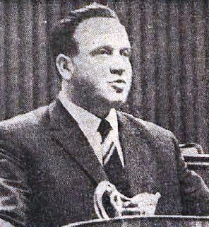 France Popit-Jokl (1921-2013), Slovene communist politician and partisan